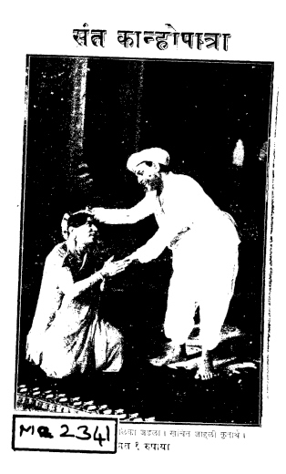 Script of "Sant Kanhopatra": front page